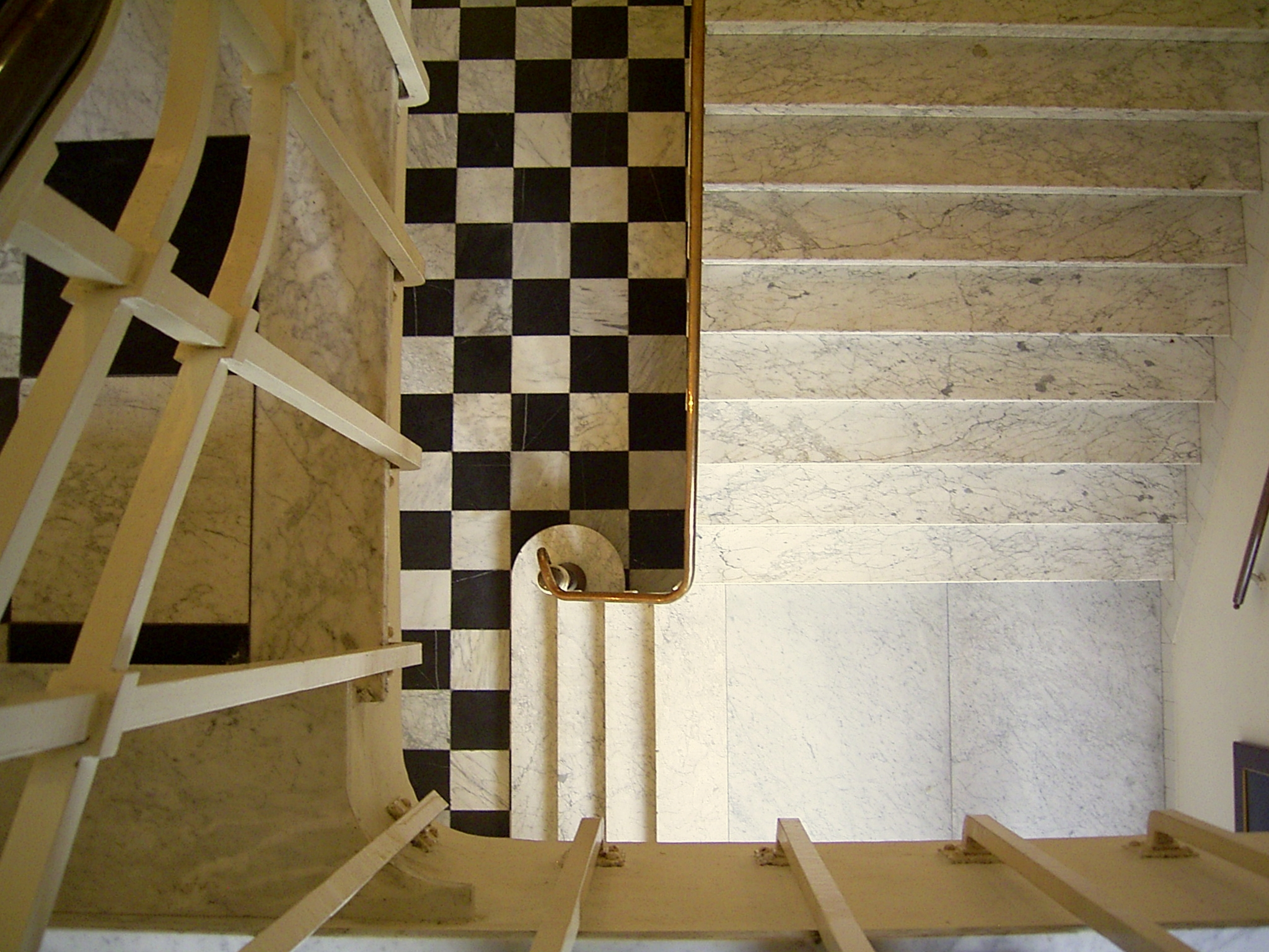 inside gemeenlandhuis in Delft, the Netherlands